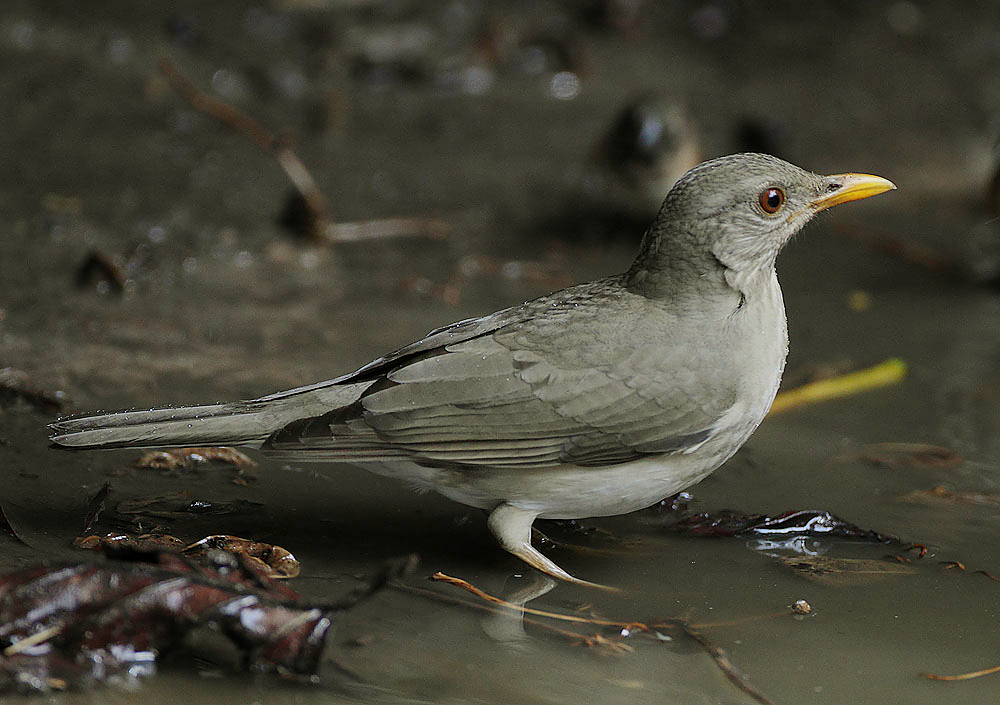 An adult bird drinking at a pool in Abuko, The Gambia.